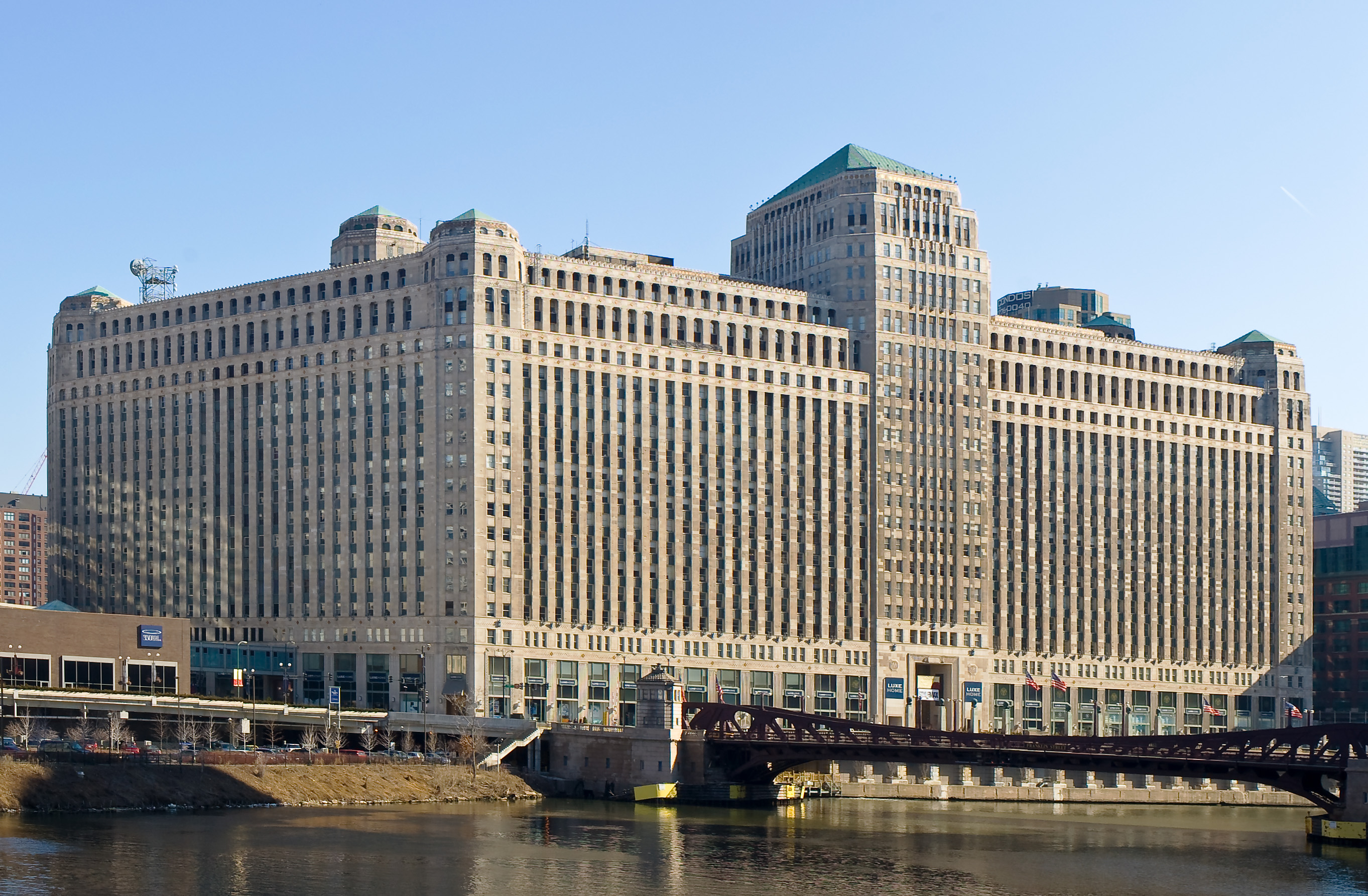 Merchandise Mart, Chicago, Illinois. Designed by Graham, Anderson, Probst & White, constructed 1928–1930.